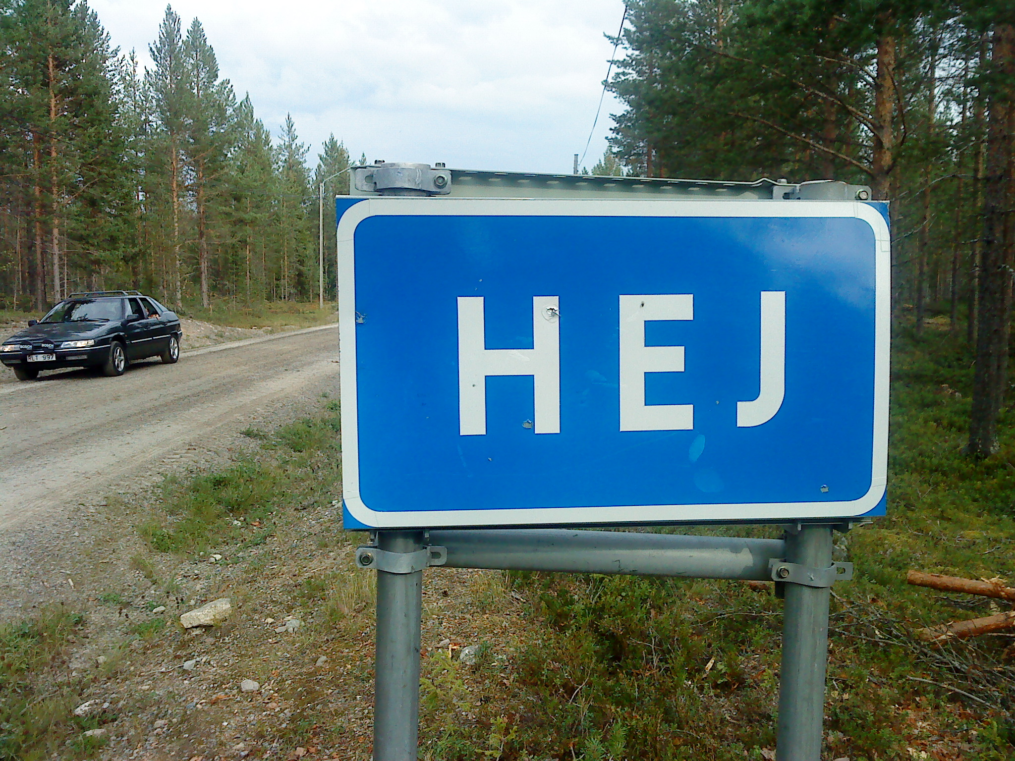 The road sign in Hej, north Sweden